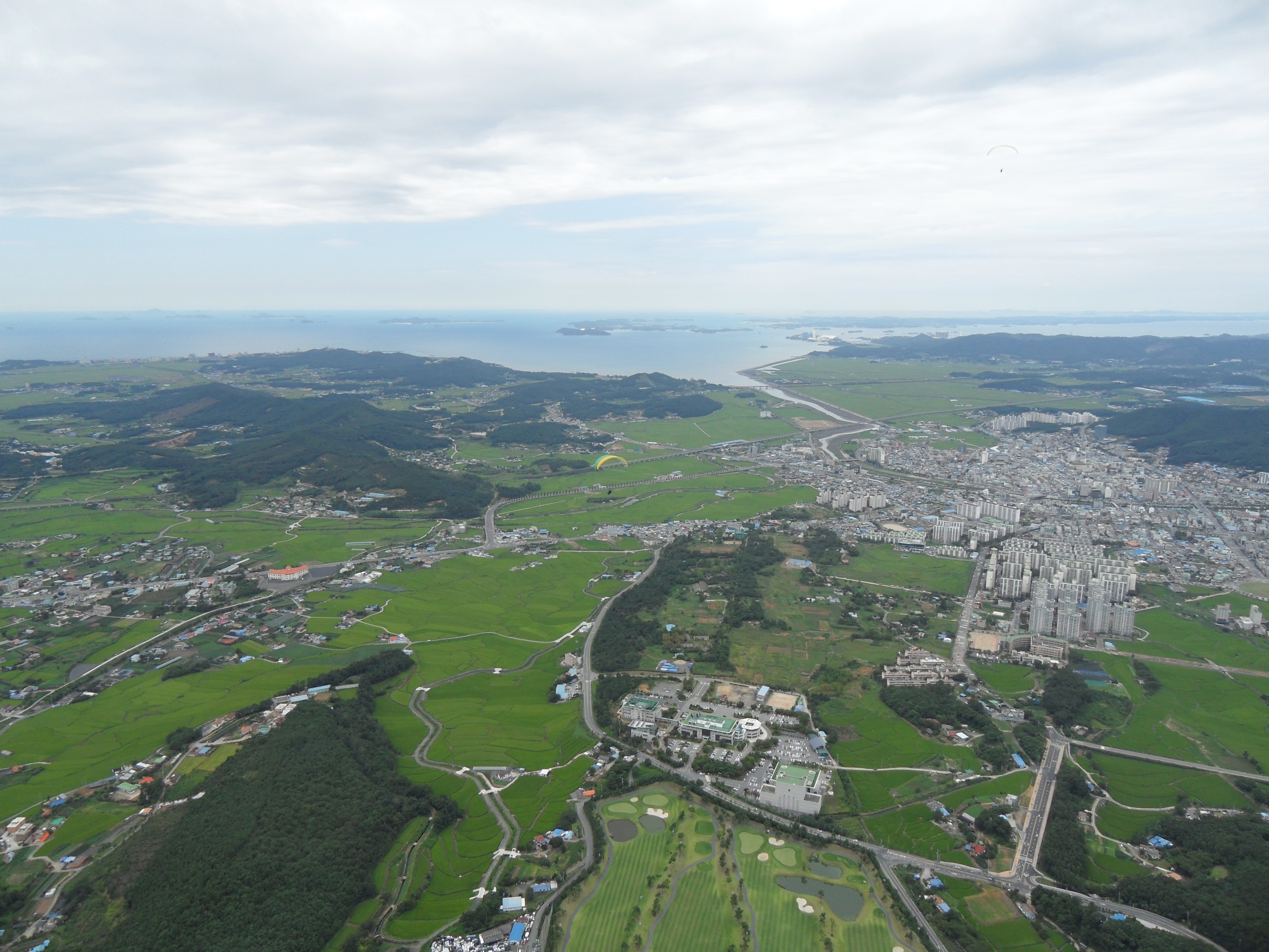 Summertime